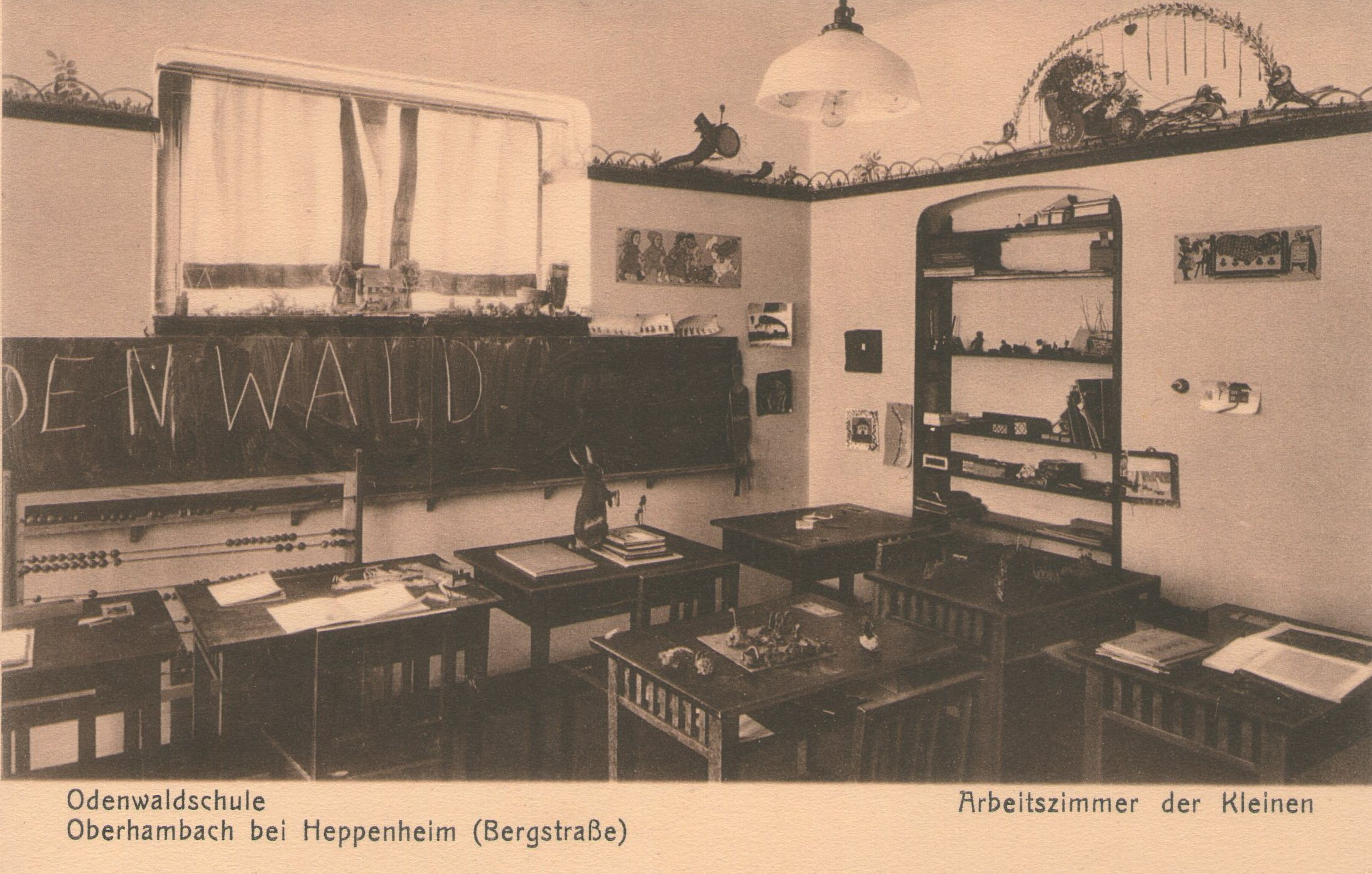 Old Postcard - Odenwaldschule Ober-Hambach - Classroom - ca. 1915